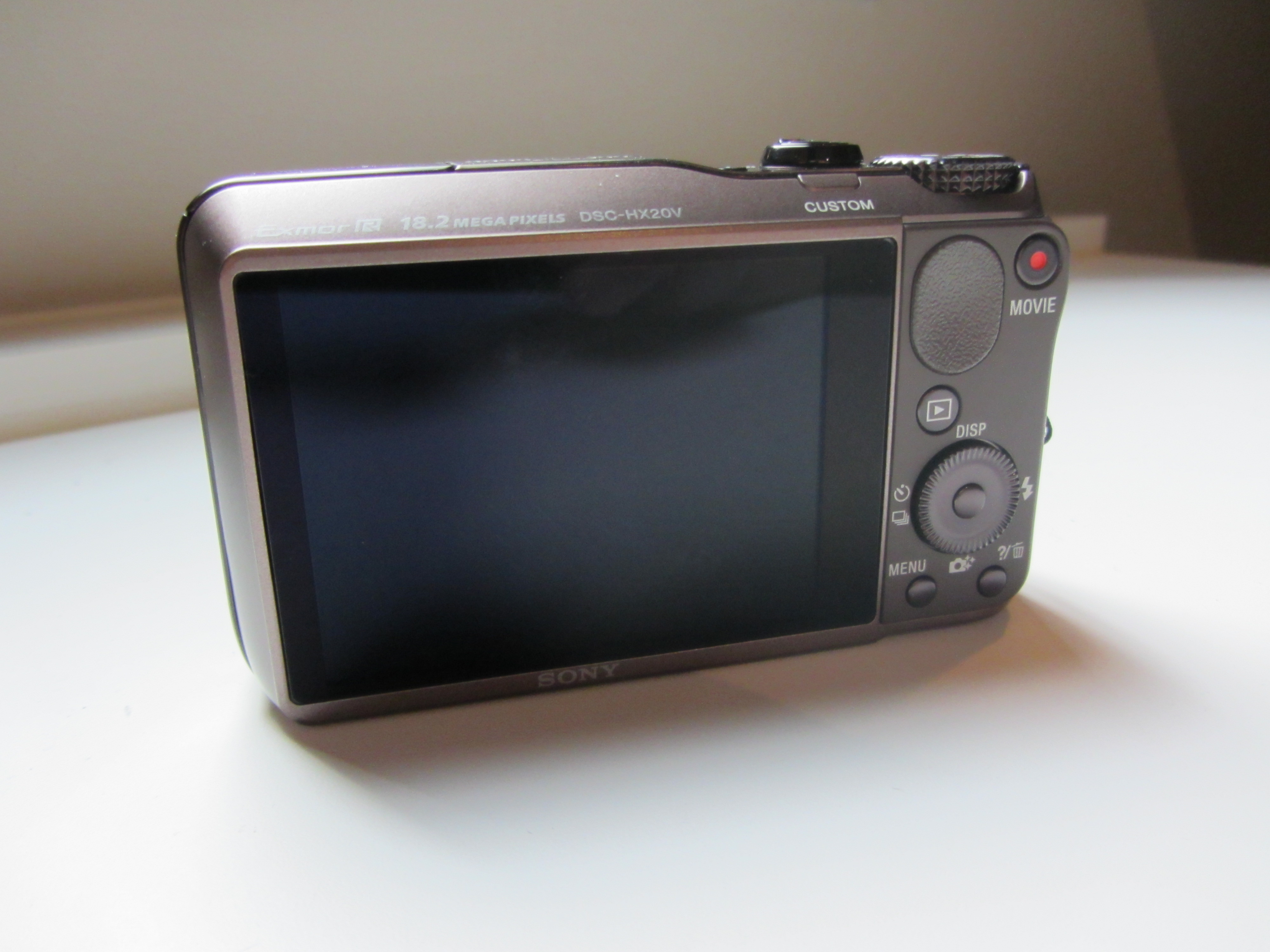 Sony DSC-HX20V (back)